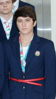 Farida Azizova. Seeing-off ceremony for Azerbaijani sportsmen to represent the country at the London 2012 Summer Olympic Games.